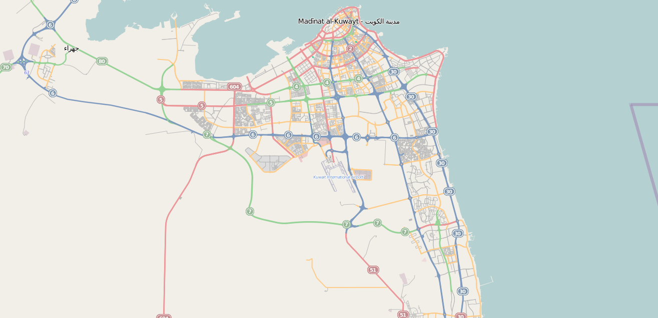 Location map Kuweit City Geographic limits of the map: N: 29.398° S: 29.09° W: 47.606° E: 48.334°